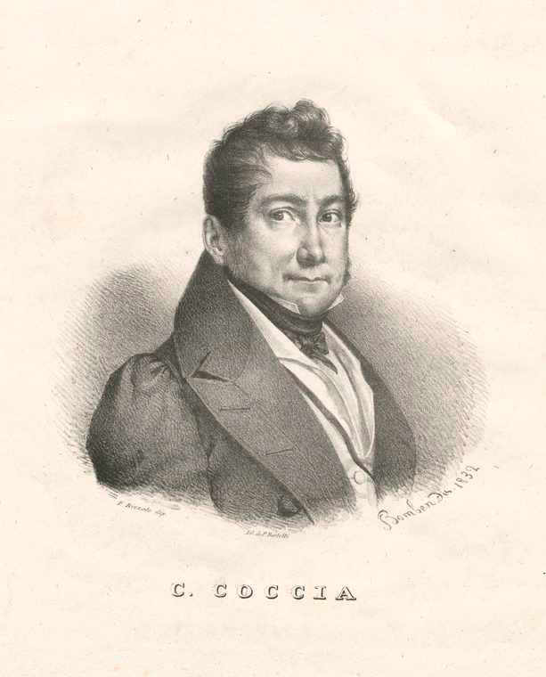 Italian composer Carlo Coccia (1782—1873)